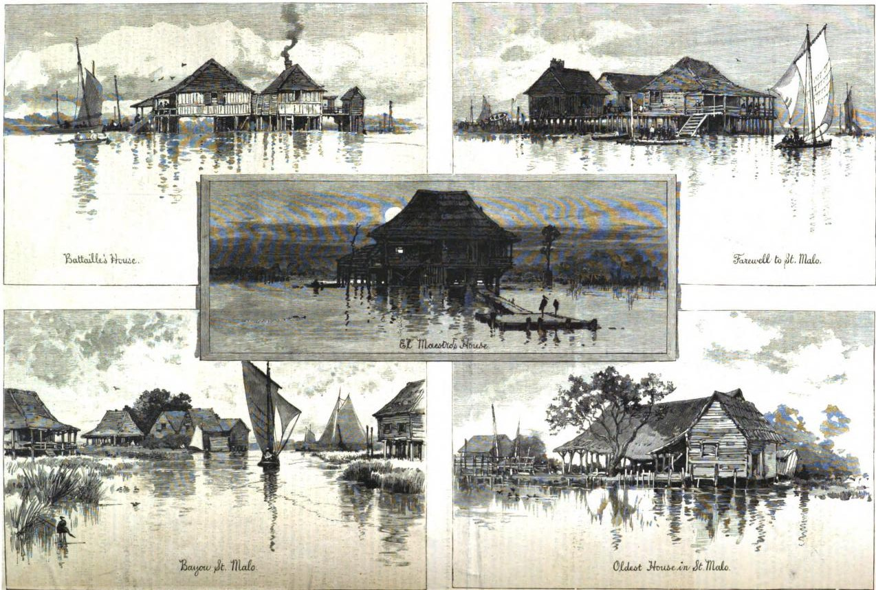 Drawing of St. Malo settlement in St. Bernard Parish, the first permanent Filipino settlement in the United States.